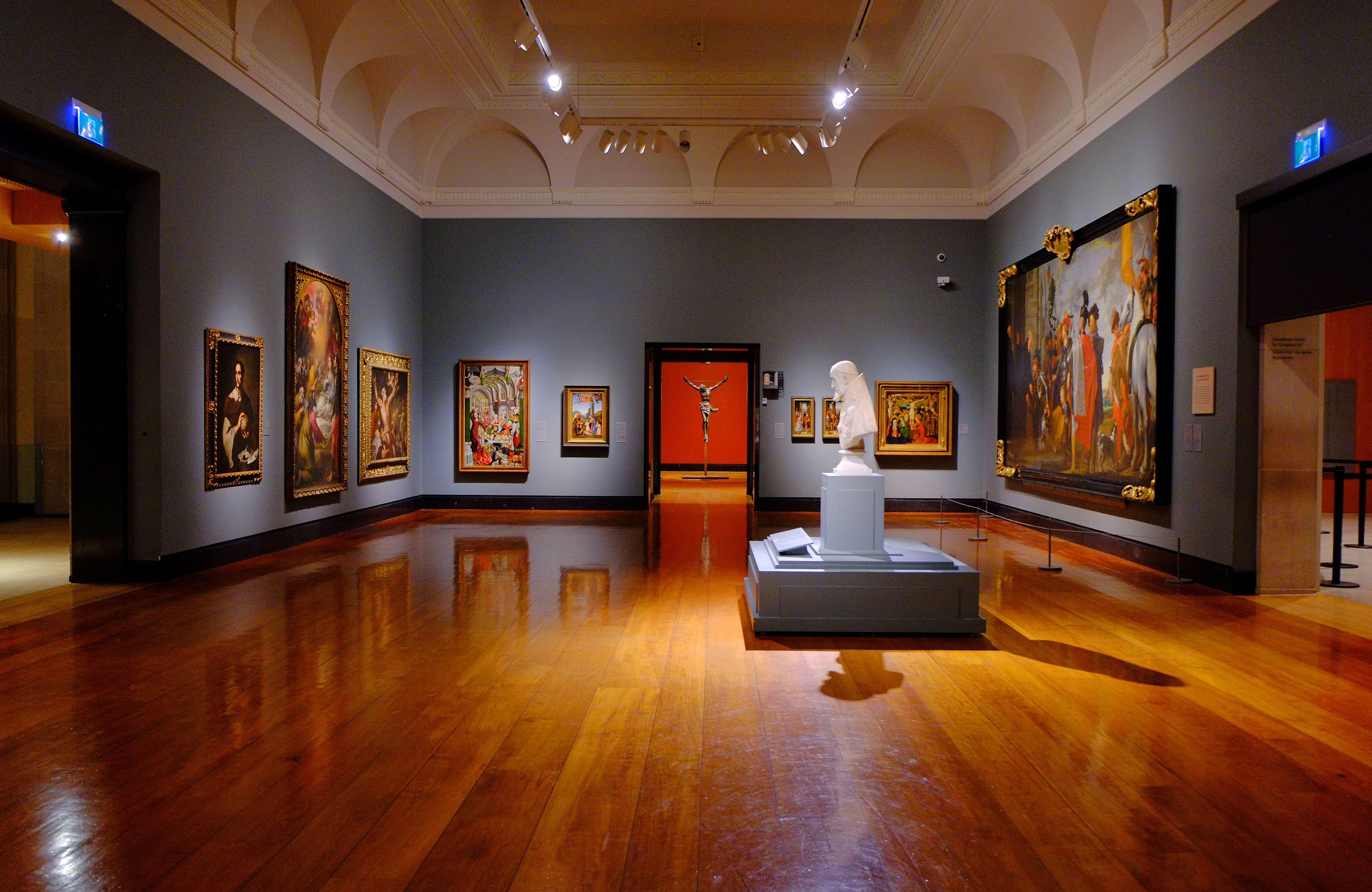 Art Gallery of Ontario